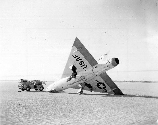 Landing accident of the Convair XF-92, October 14, 1953. Nose gear collapsed; ended use of the aircraft by NACA.